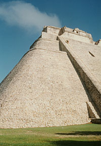 uxmal adivino, from ground level (the overall shot I got of it is no good).